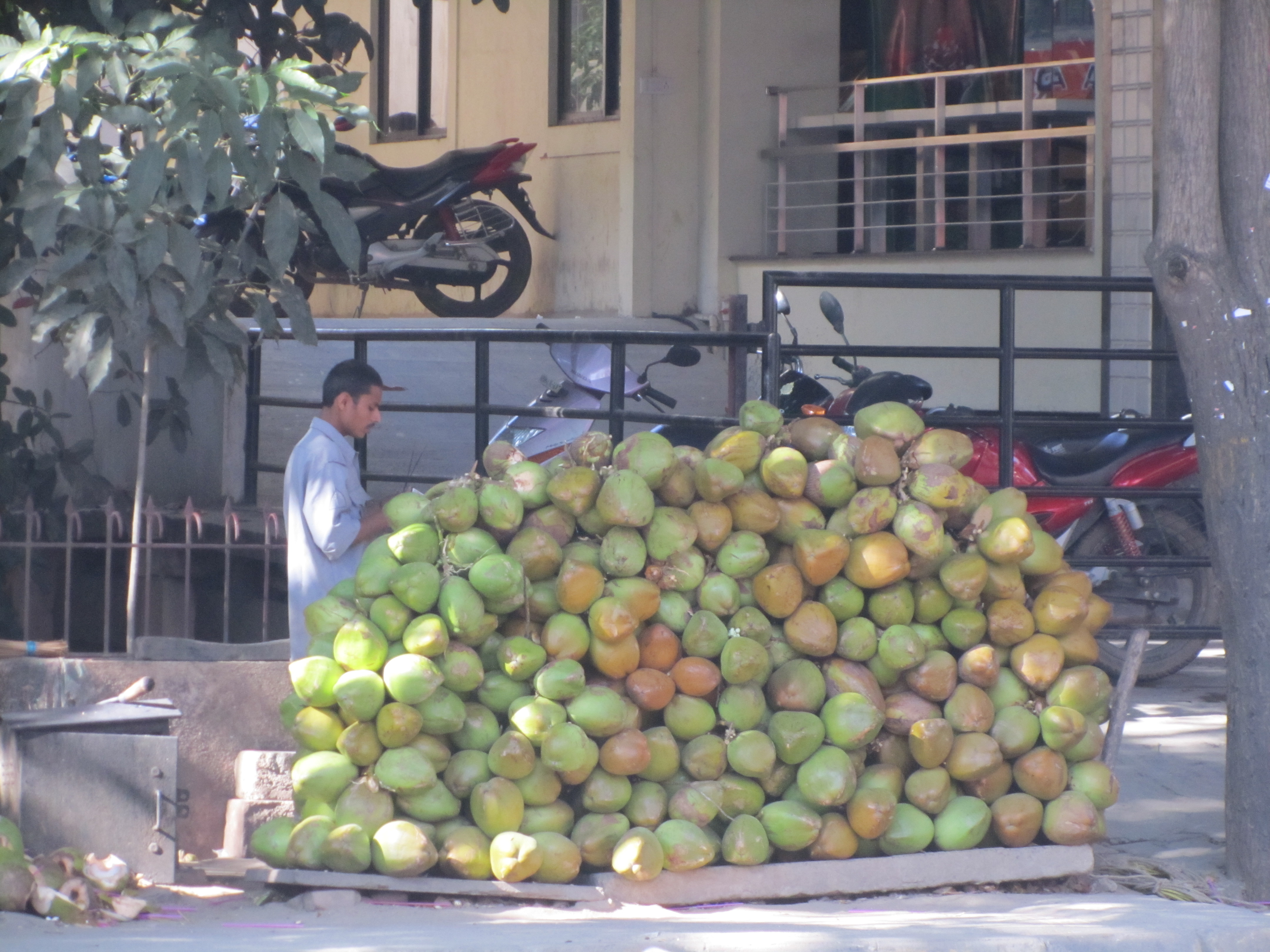 A coconut vendor in Bangalore